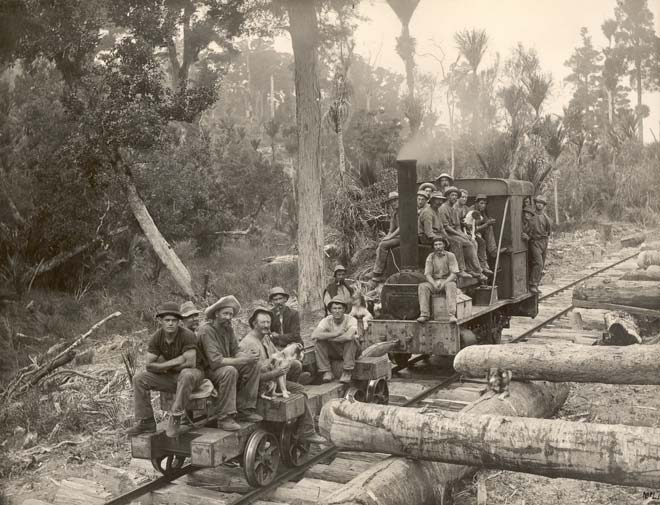 Logging railway near Kuaotunu, NZ. This team of 19 workers is setting off to work from their camp near Kuaotunu in the Coromandel. Photographed about 1908, they are on the first train of the morning. Some are sitting on log bogies, others are on the water tank of the ‘lokey’ (locomotive). Bushmen often took their dogs along.